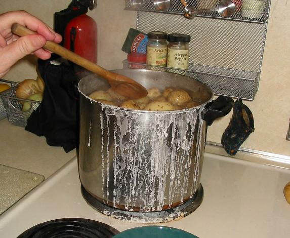 Cooking salt potatoes in Syracuse, July 2005.